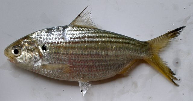 Anodontostoma chacunda, from off New Caledonia. Fish market, Nouméa, New Caledonia, Fork length 185 mm, Weight 159g, date 2009/03/11